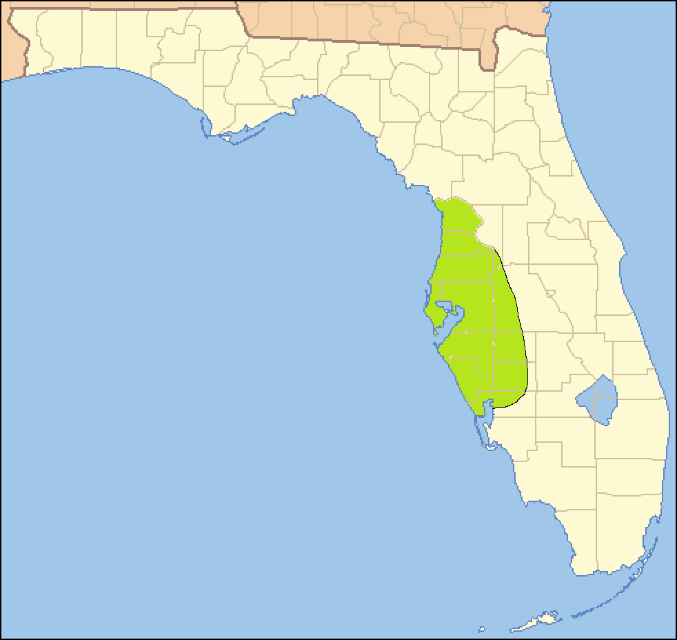 Map of the approximate area of the Safety Harbor archaeological culture, based on the map on page 390 in Milanich, Jerald T. (1994). Archaeology of Precolumbian Florida. Gainesville, Florida: University Press of Florida. ISBN 0-8130-1273-2.